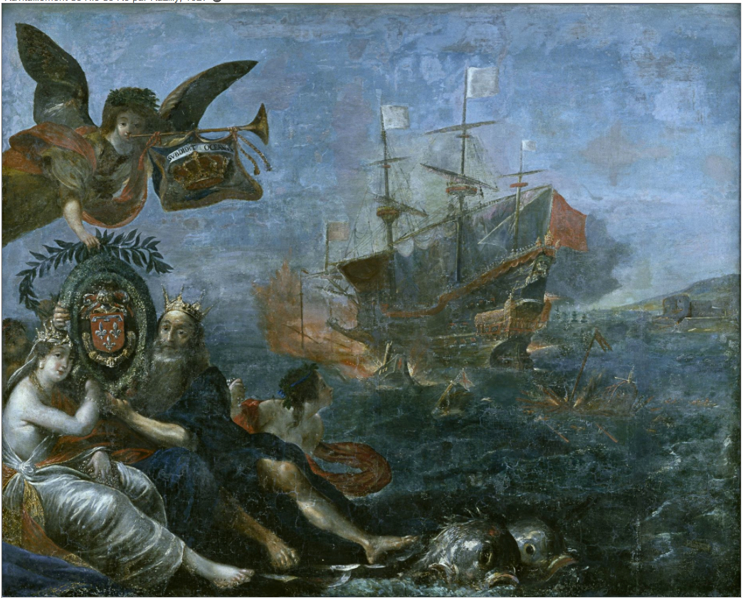 Ravitaillement_de_l_Ile_de_Re_par_Claude_de_Razilly_en_1627_by_Claude_Vignon_1642.